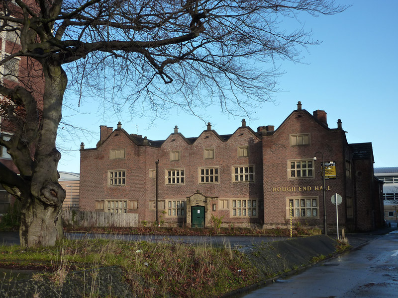 Hough End Hall, Chorlton